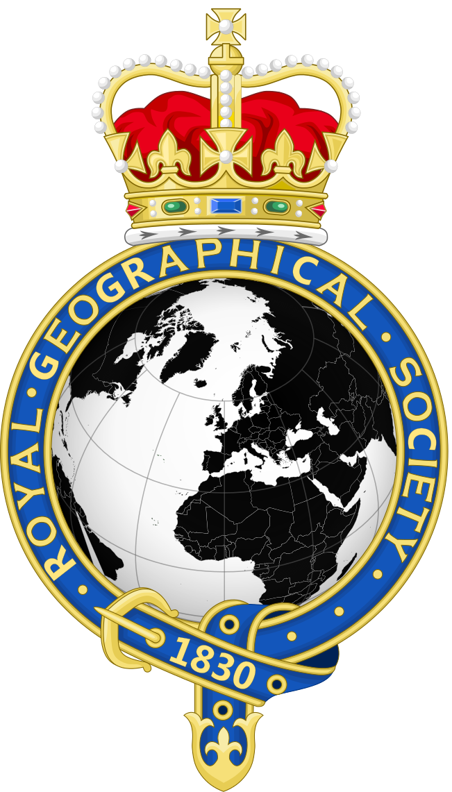 Royal Geographical Society Circlet